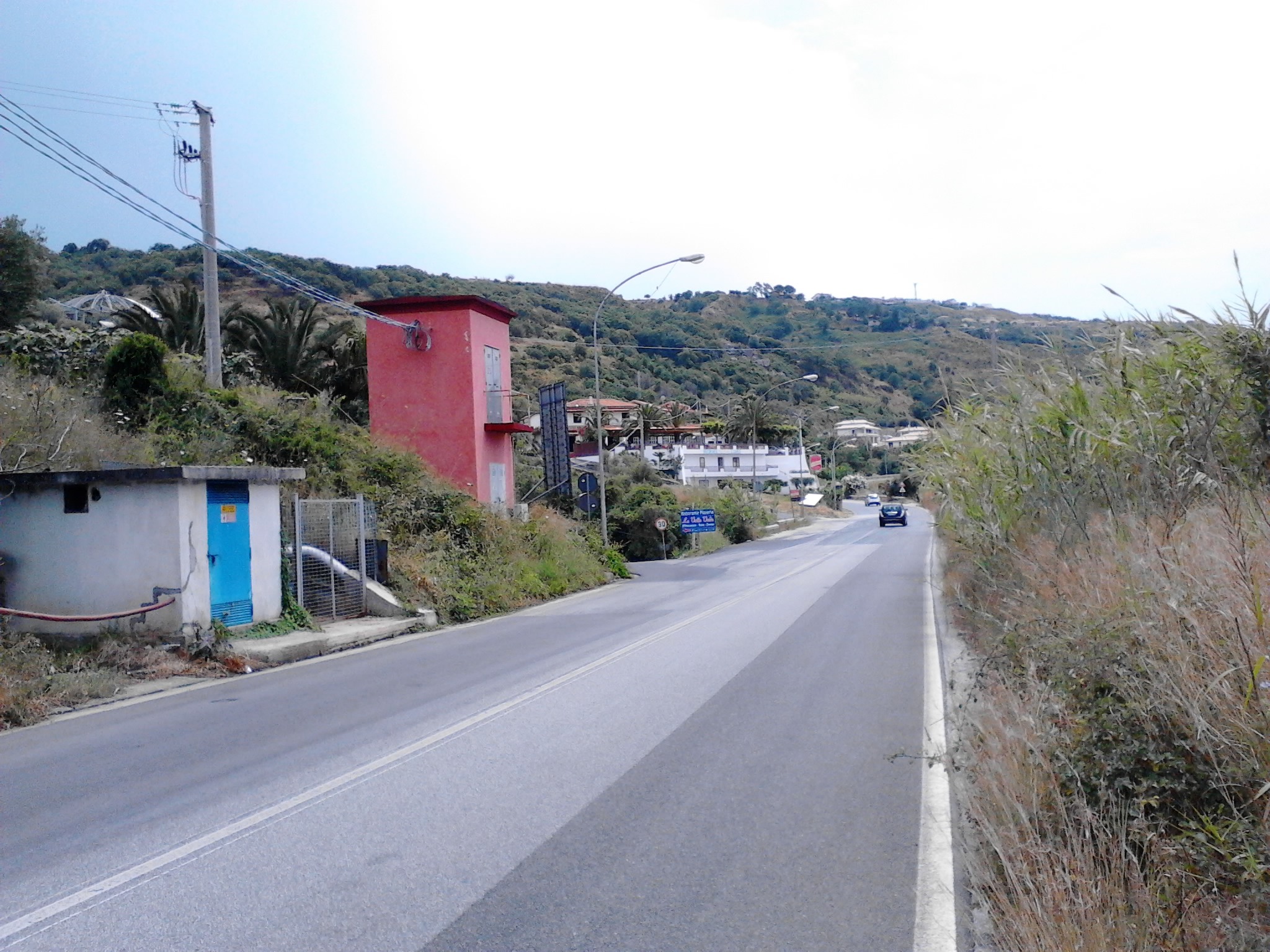 The SP6 in Zambrone ITALY